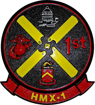 Coat of Arms of the Marine Helicopter Squadron One (HMX-1), a United States Marine Corps helicopter squadron responsible for the transportation of the President of the United States, Vice President, Cabinet members and other VIPs.